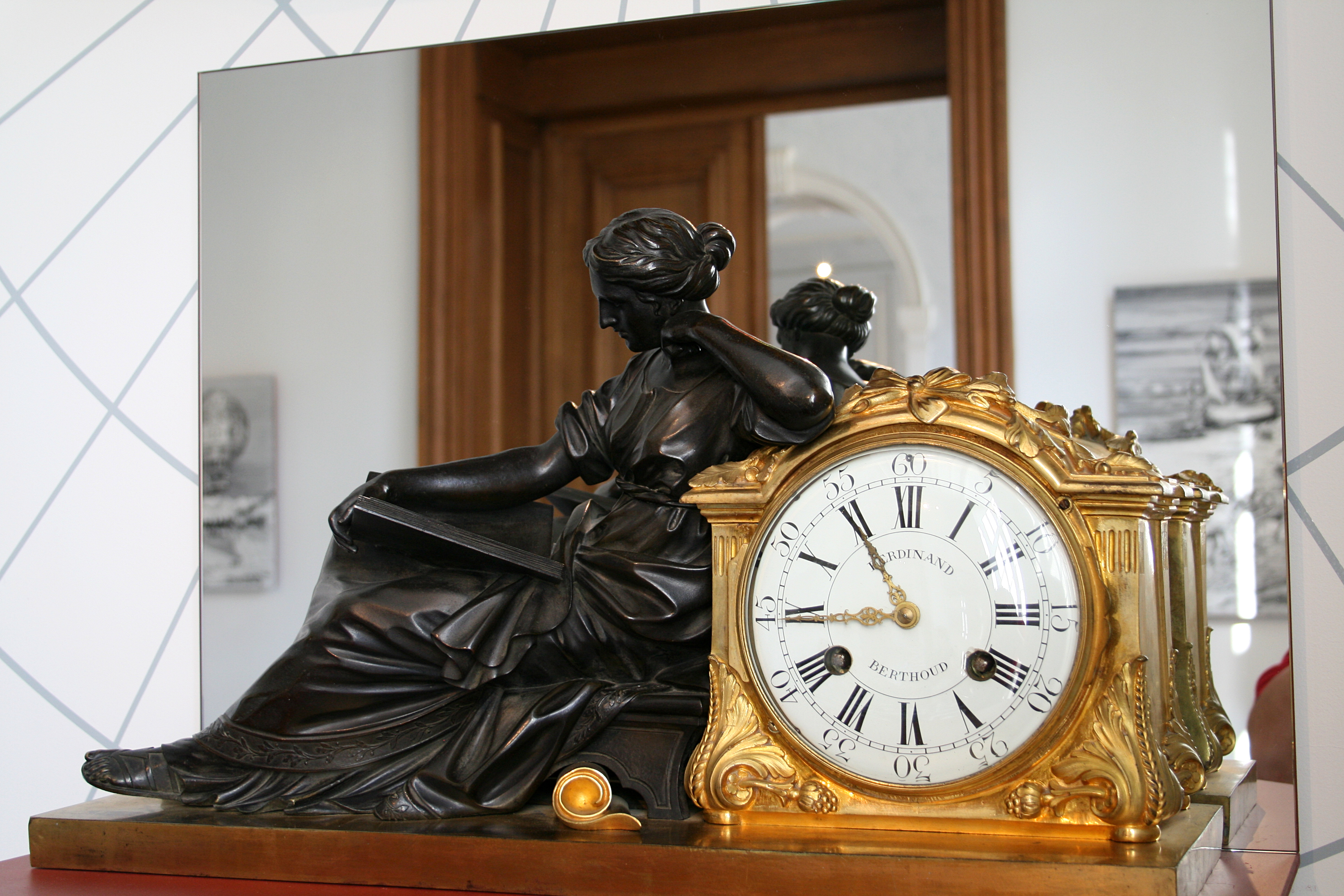 Seneffe (Belgium), clock in gilded bronze of Ferdinand Berthoud - Musée de l'Orfèvrerie de la Communauté française.